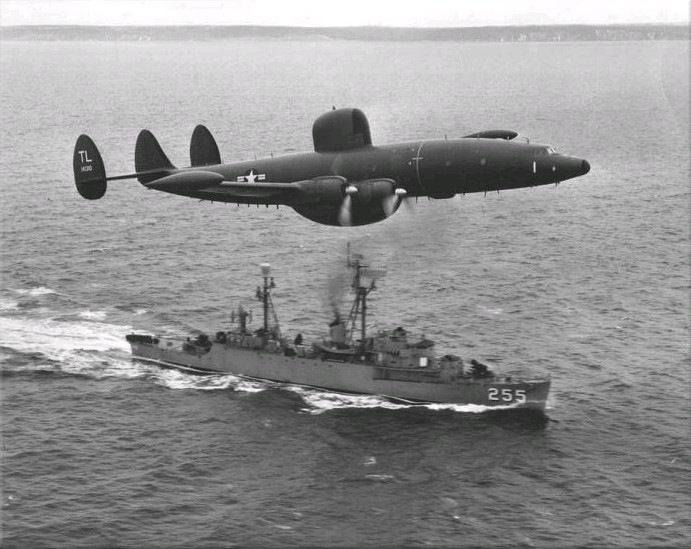 A U.S. Navy Lockheed WV-2 Willy Victor (BuNo 141310) of Early Warning Squadron 15 (VW-15) flies over the radar picket destroyer escort USS Sellstrom (DER-255) off the coast of Newfoundland, Canada, in March 1957.The WV-2 141310 disappeared on 20 February 1958 300 km north of the Azores in the Atlantic Ocean. No trace of the aircraft or the crew of 22 was ever found.